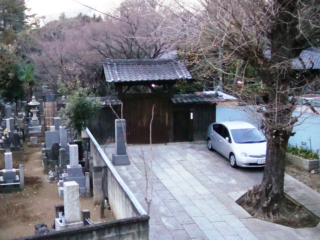 Ryuganji temple at Harajuku, Tokyo (Jingu-mae 2, Shibuya city)